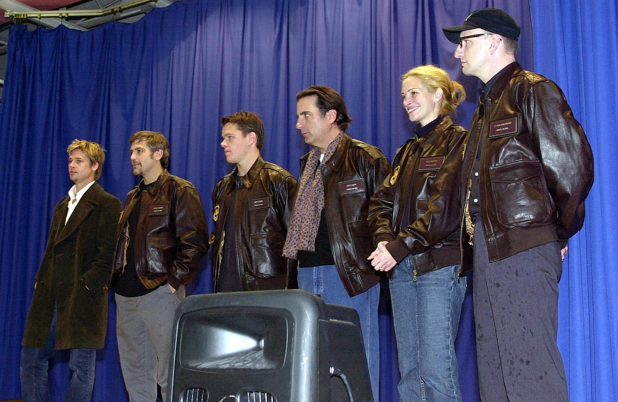 Part of the cast of the 2001 film Ocean's Eleven at Incirlik Air Base, Turkey. The cast from left to right is Brad Pitt, George Clooney, Matt Damon, Andy Garcia, Julia Roberts and director, Steven Soderbergh.